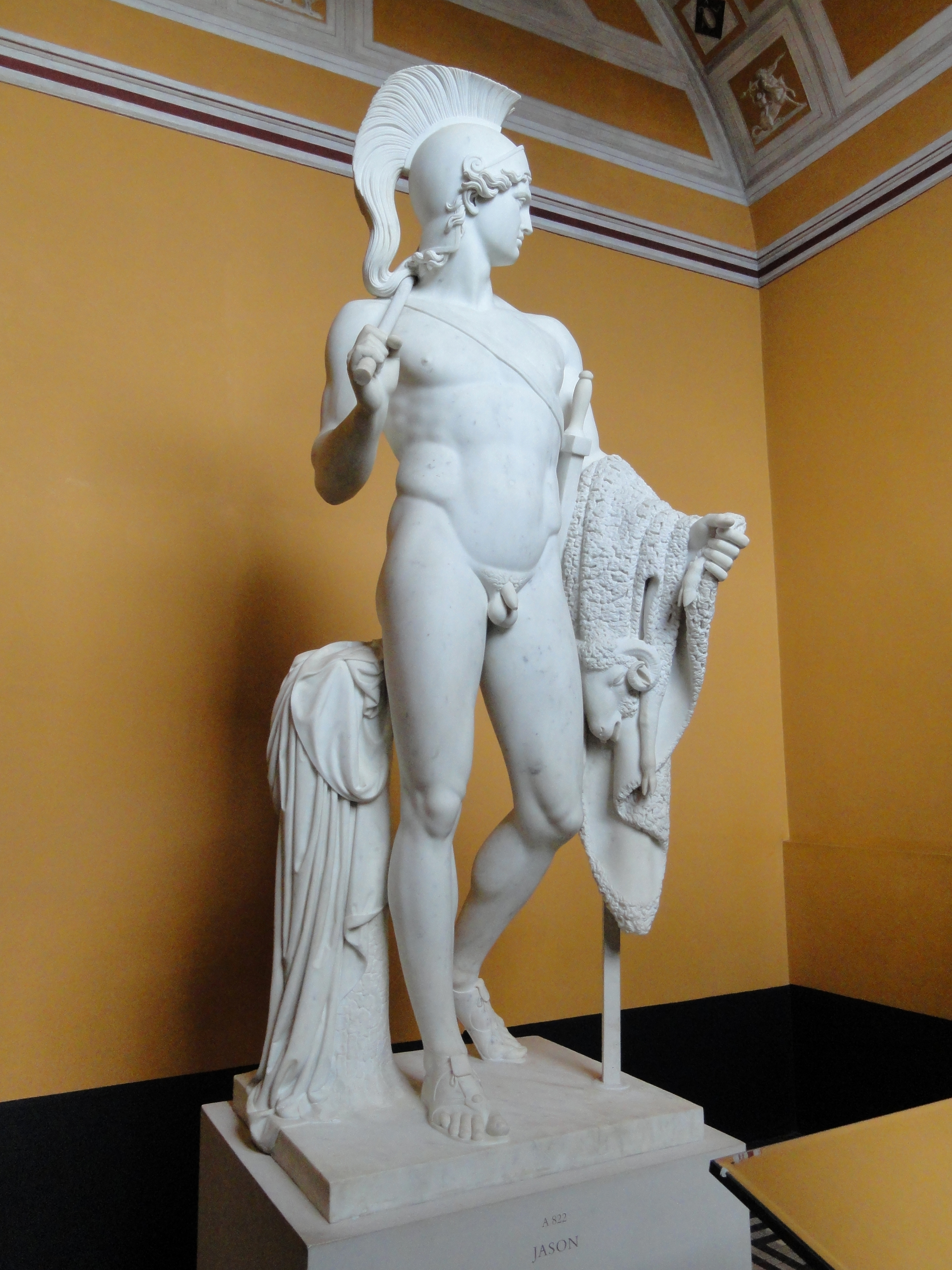 Sculpture in Thorvaldsens Museum, Copenhagen, Denmark. Sculptor: Bertel Thorvaldsen (c. 1770-1844). This artwork is now in the public domain because the artist died more than 70 years ago.